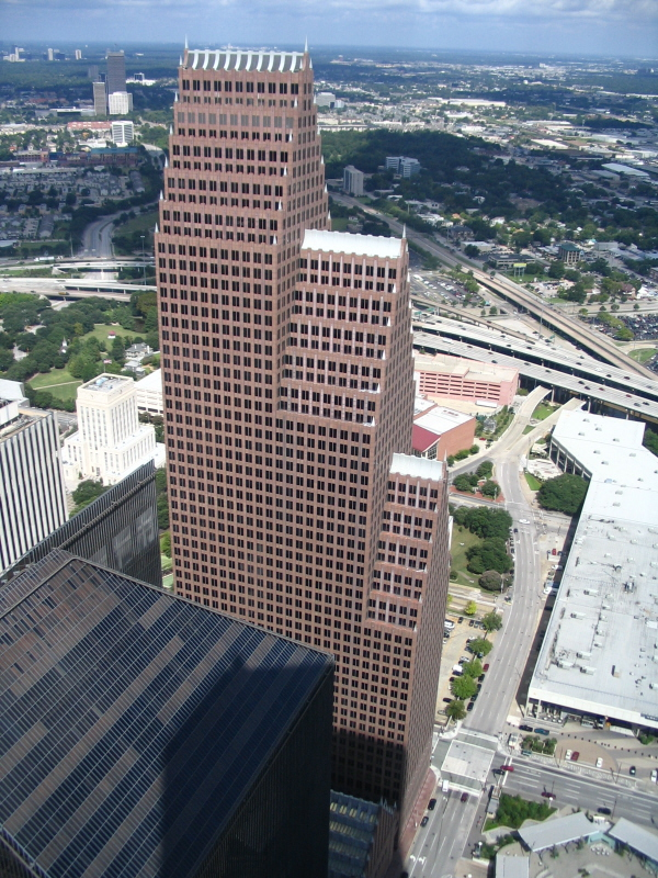 Bank of America Center (Houston) Daniel2986 18:02, 20 January 2007 (UTC)